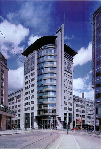 Stenersgata 2 is a street in the center of Oslo, near the shopping center Oslo City. The building houses some of the largest media companies in Norway.